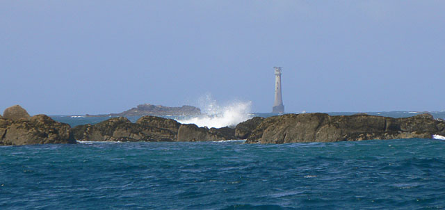 Western Rocks, Scilly, with the Bishop Rock Lighthouse The rocks in the foreground are probably Jacky's Rock, with Jolly Rock beyond. The Bishop Rock is approximately three kilometres beyond these.